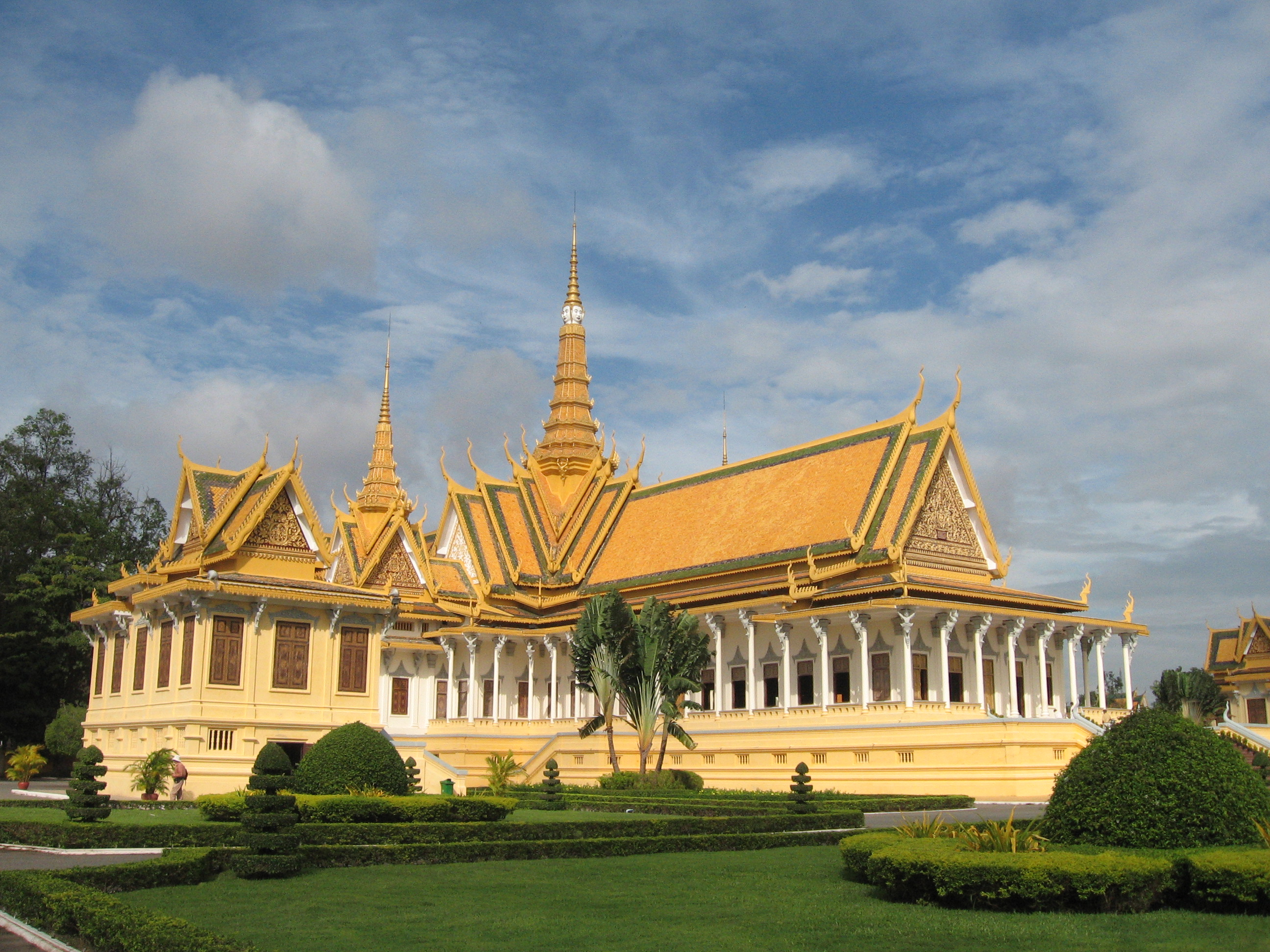 Throne Hall (Preah Thineang Dheva Vinnichayyeaah meaning the "Sacred Seat of Judgement.") is where the king's confidants, generals and royal officials once carried out their duties. It is still in use today as a place for religious and royal ceremonies (such as coronations and royal weddings) as well as a meeting place for guests of the King. The present building was constructed in 1917 and inaugurated by King Sisowath in 1919. The building is 30x60 meters and topped by a 59-meter spire. As with all buildings and structure at the Palace, the Throne Hall faces east and is best photographed in the morning. When visiting note the thrones (Reach Balaing in front and Preah Tineang Bossobok higher at the back) and the beautiful ceiling frescoes of the Reamker.